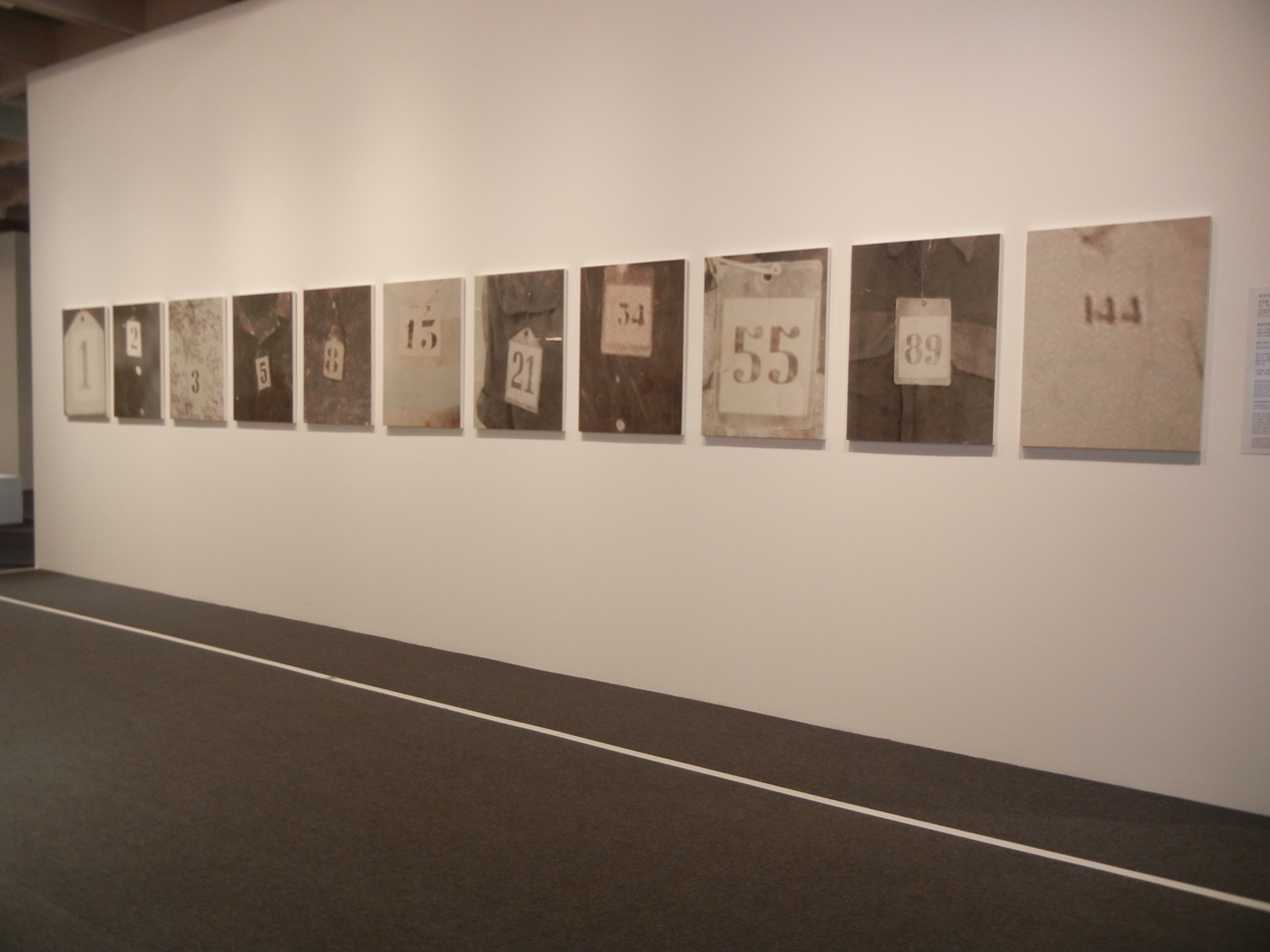 Exhibited at HK Museum of Art